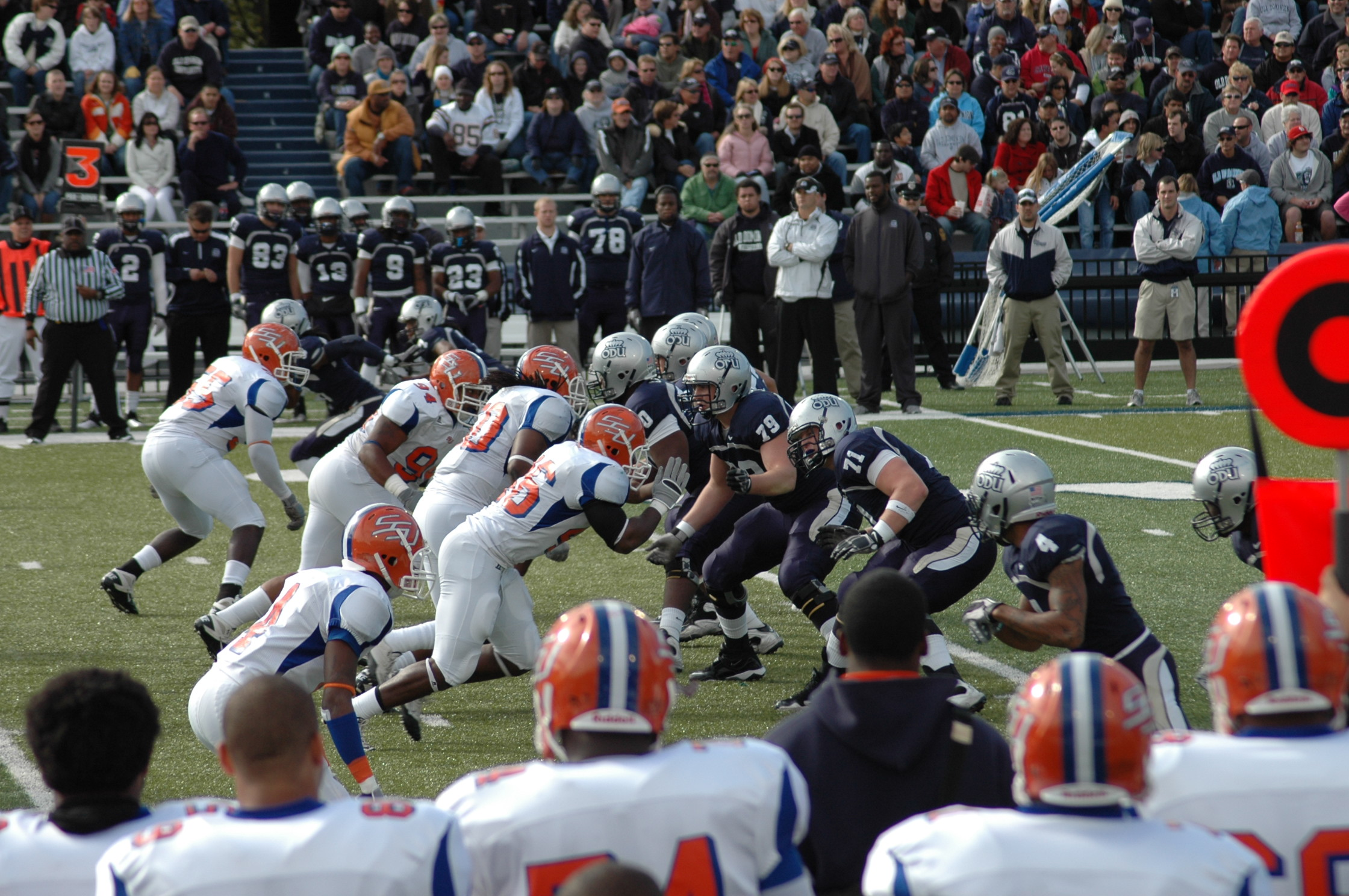 Photo of Savannah State Tigers football team vs. Old Dominion Monarchs football team taken on November 6, 2010 in Norfolk, Virginia.